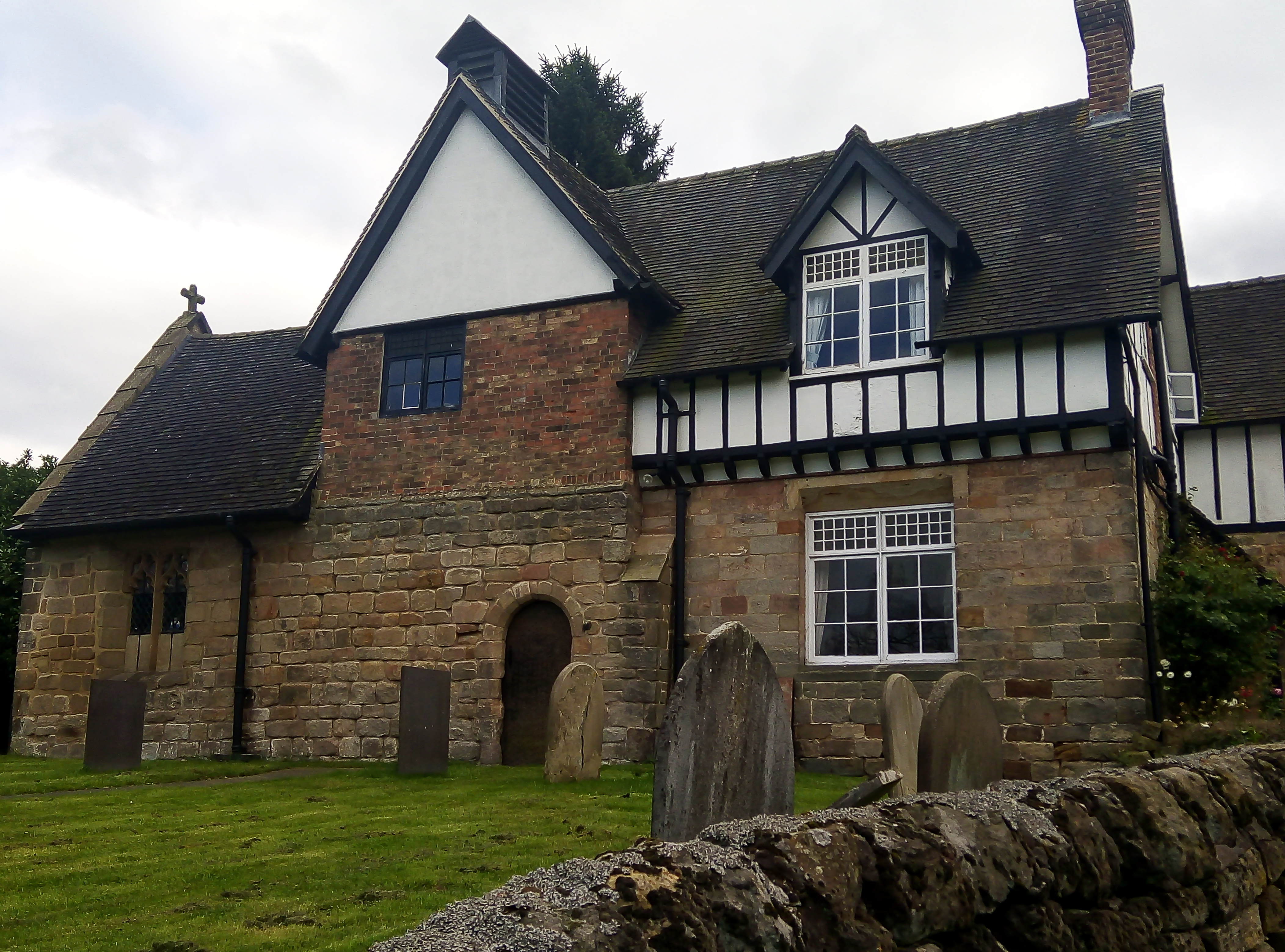 All Saints' Church and Verger's House, Dale Abbey, Derbyshire. The church is believed to date from 12th century and to be on the site of the successive hermit's chapel (c. 1130s), gentry woman's chapel (c.mid-12th cENTURY and abbey infirmary chapel. Viewed from footpath on north west side.